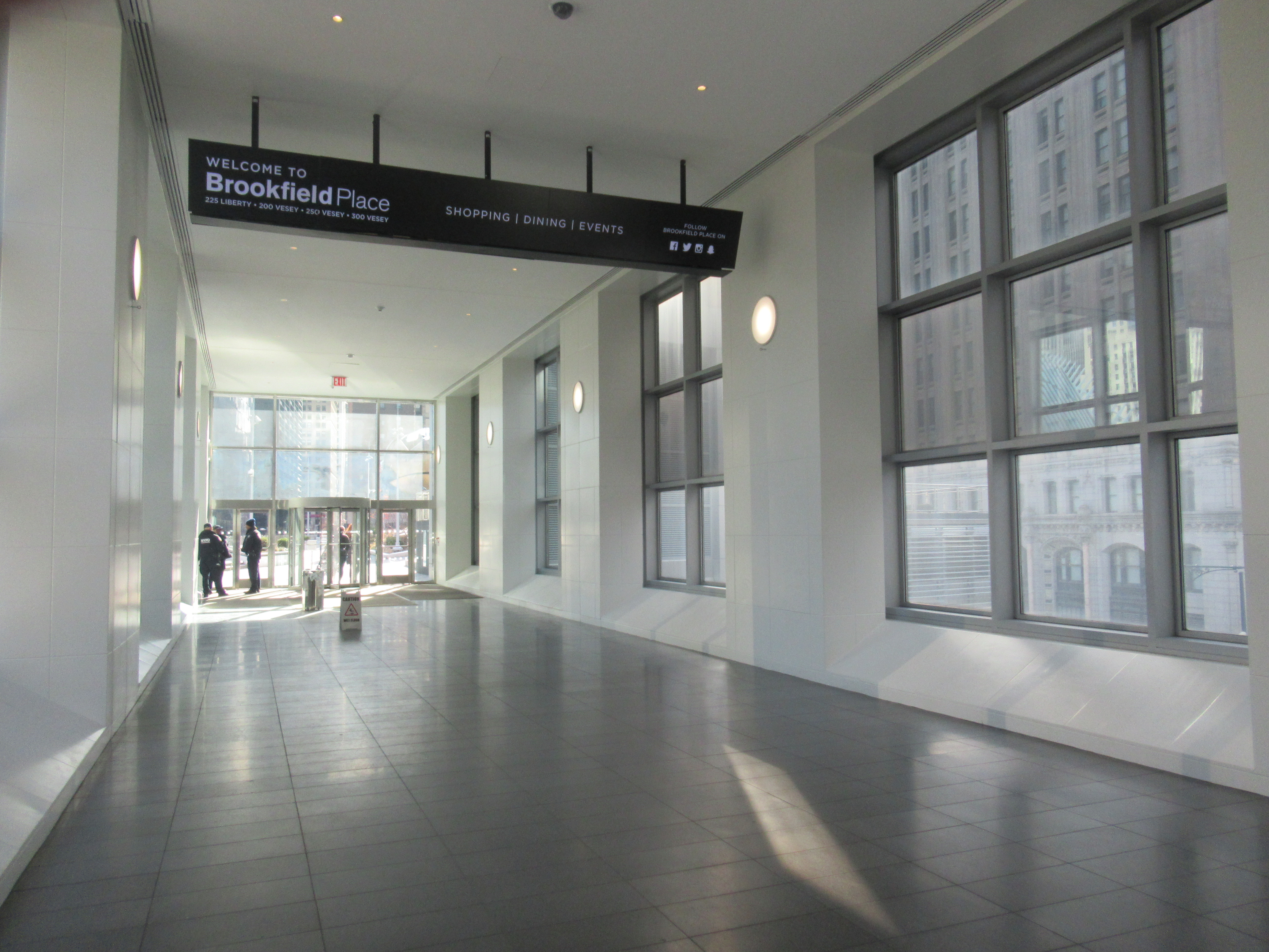 the only remaining original bridge of the world financial center, it used to go to the south tower's parking lot, now it goes to liberty park.